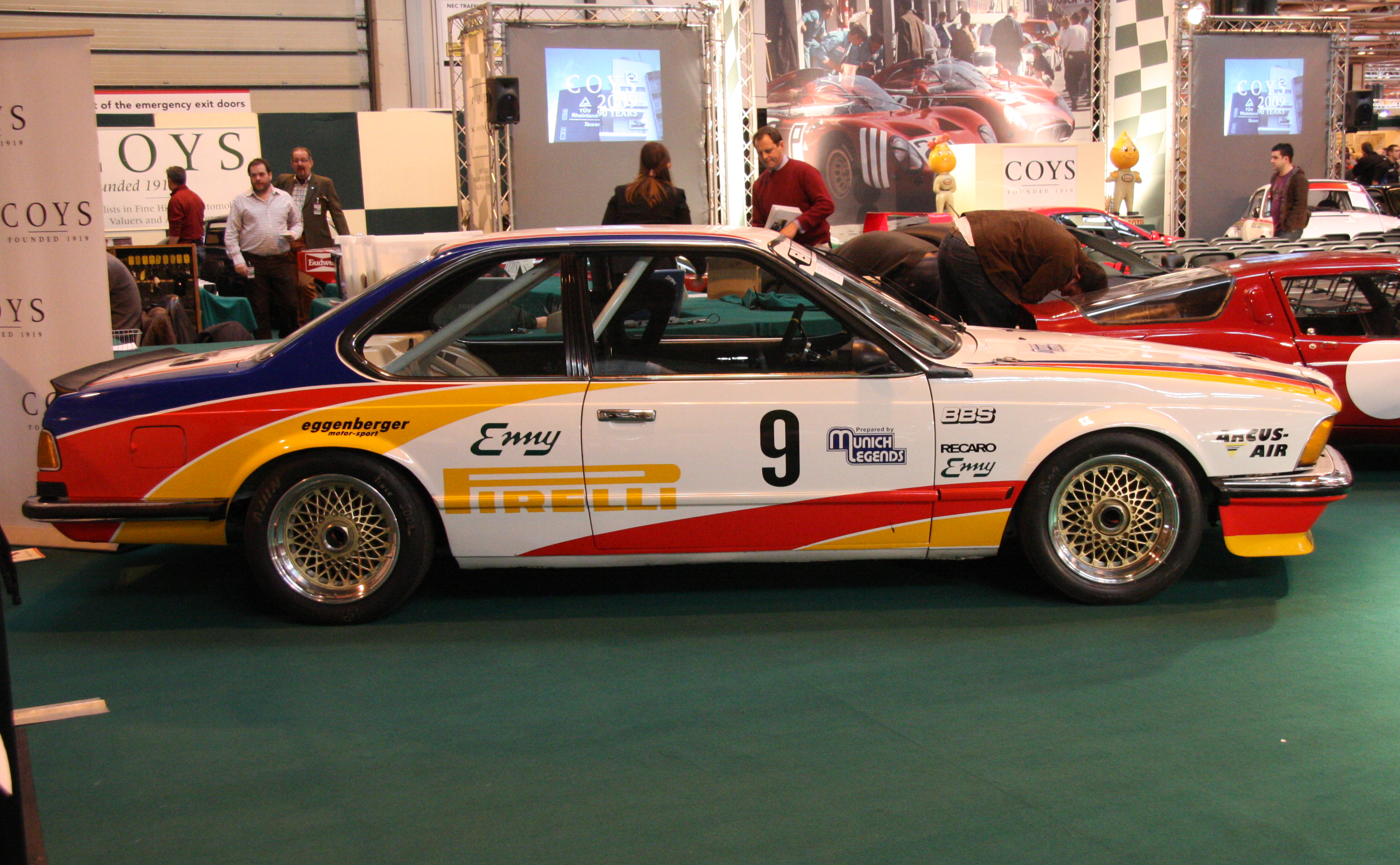 Auctioned by Coys. Estimate: £45000 - £65000